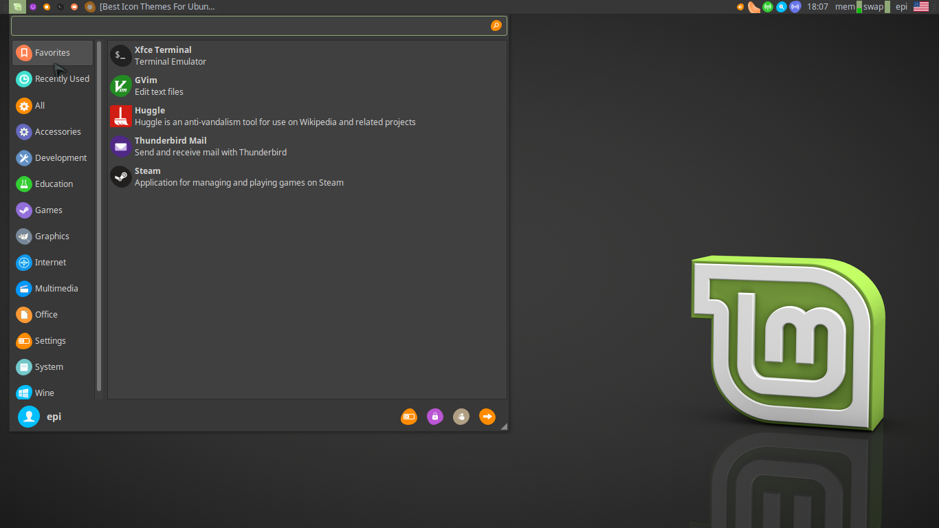 Linux Mint Sylvia 18.2 with XFCE